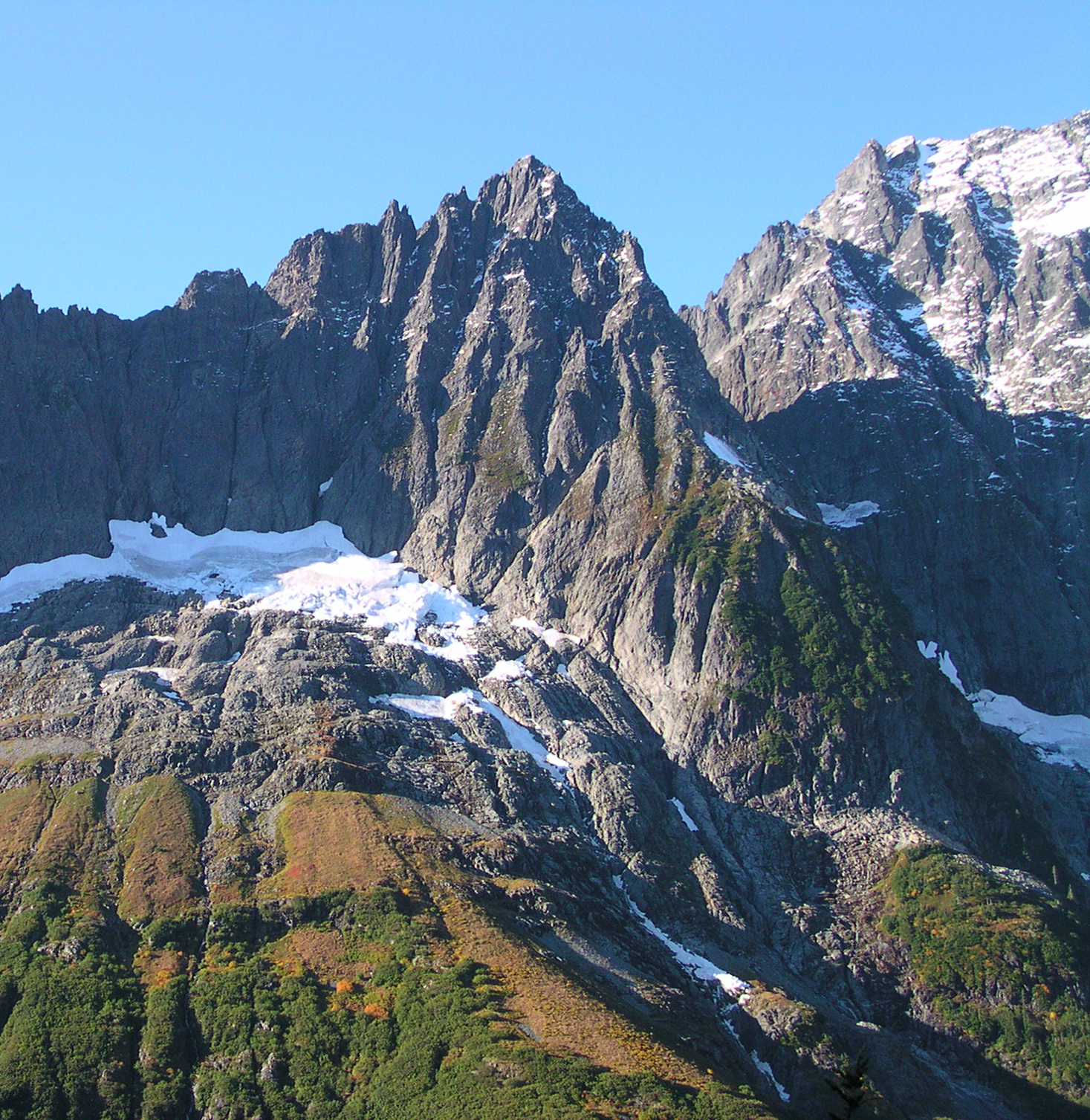 Cascade Peak, North Cascades National Park United States of America